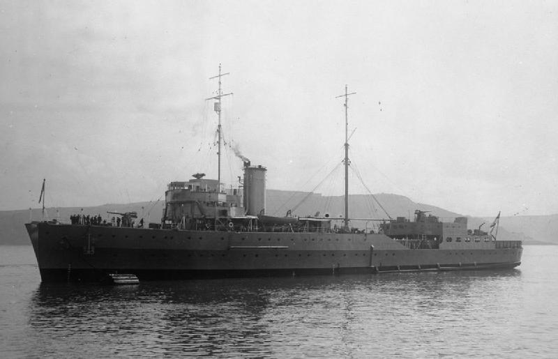 Photograph of British netlaying ship HMS Guardian (1932).